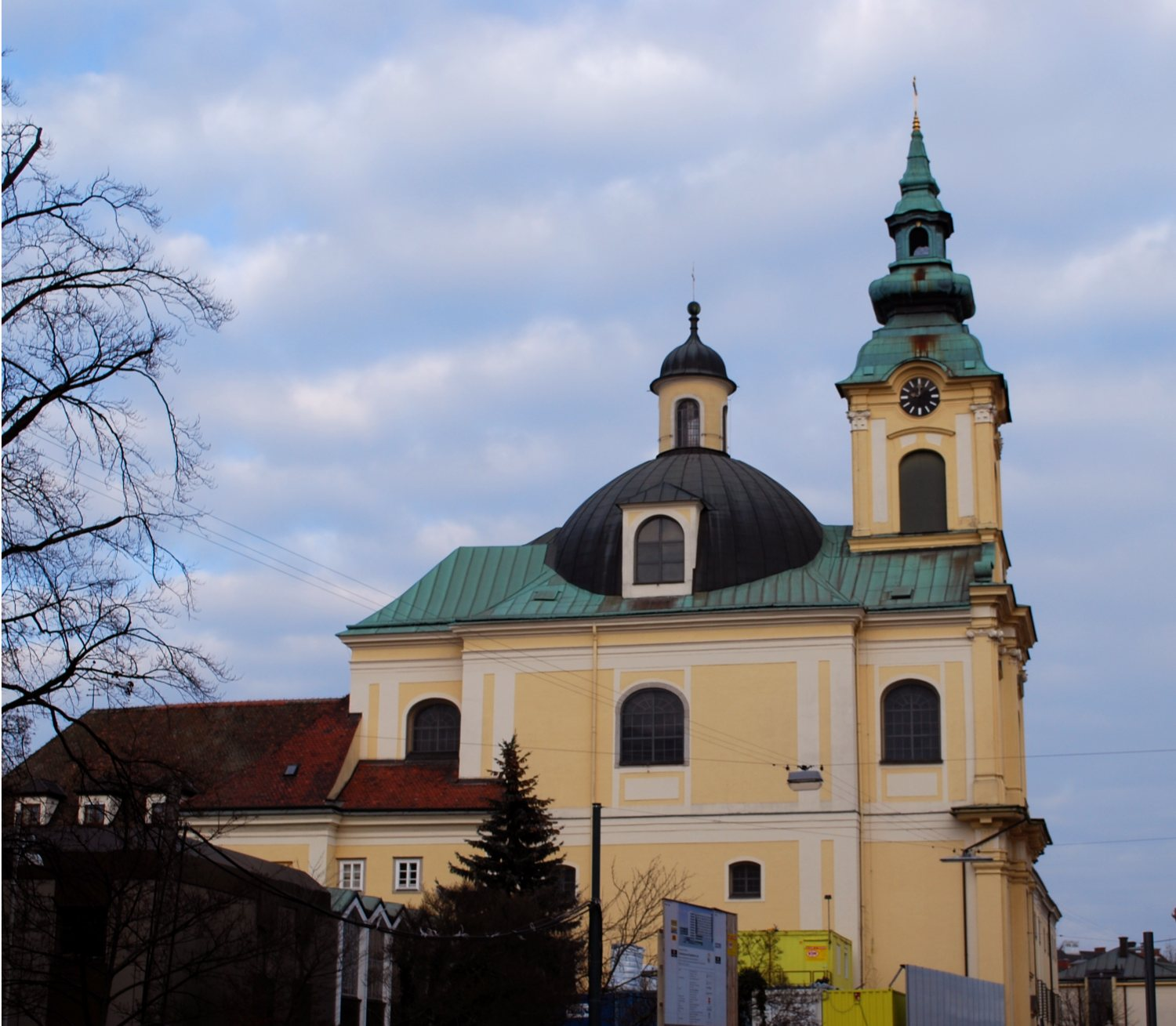 Church of the order of Elisabeth, Linz, Austria; from the west